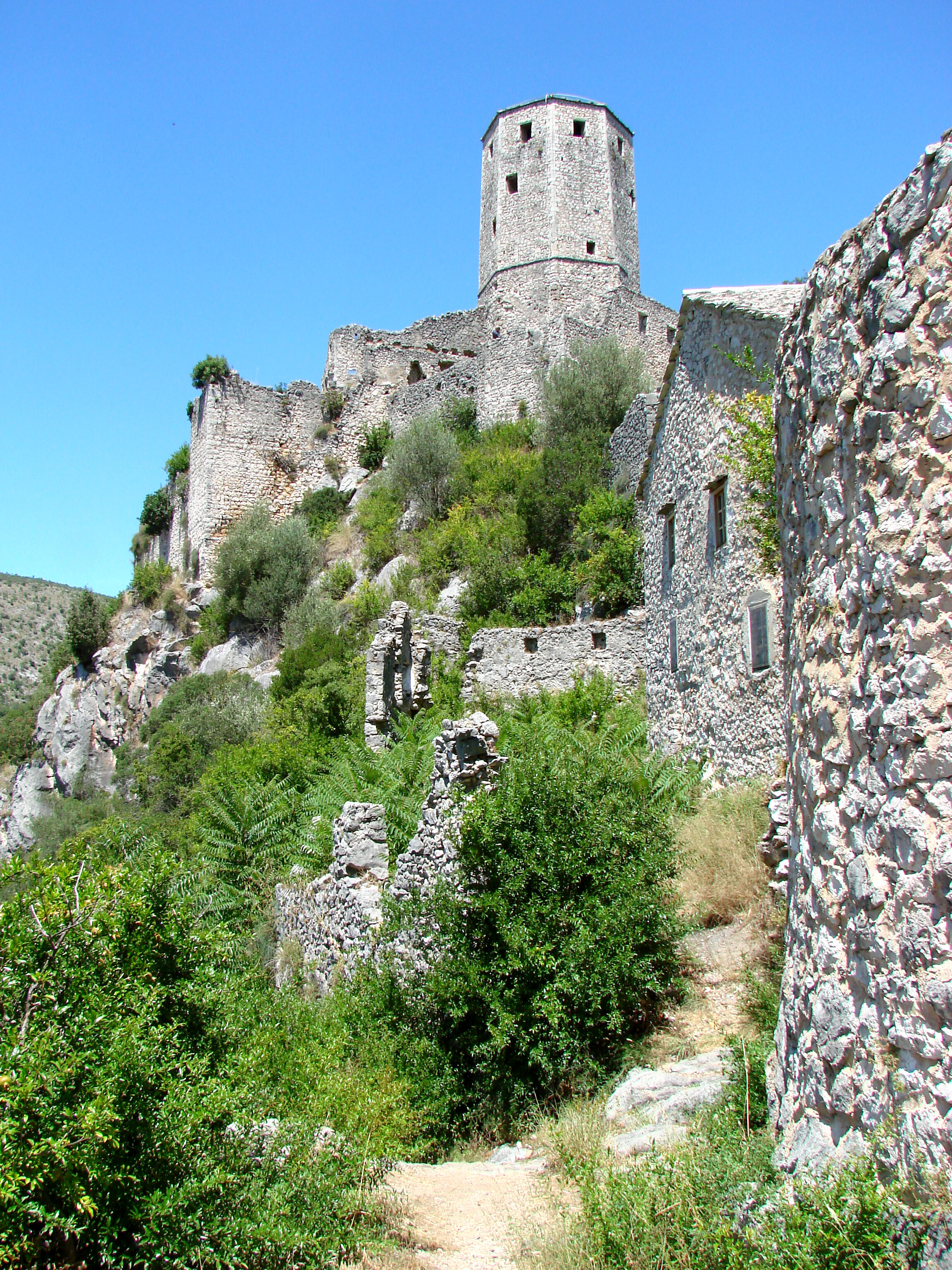 Village of Počitelj, near Mostar